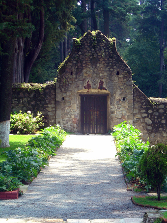 Garden of former Monastery of Desierto de los Leones. In Desierto de los Leones National Park, in western México, D. F..